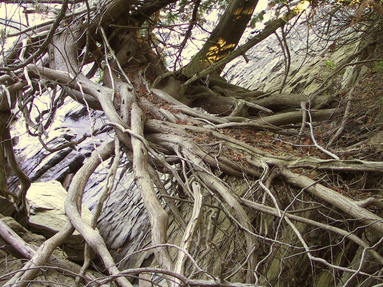 Roots near the shore of Lake Champlain in Point au Roche State Park, Clinton County, New York, USA. Trees are Thuja occidentalis